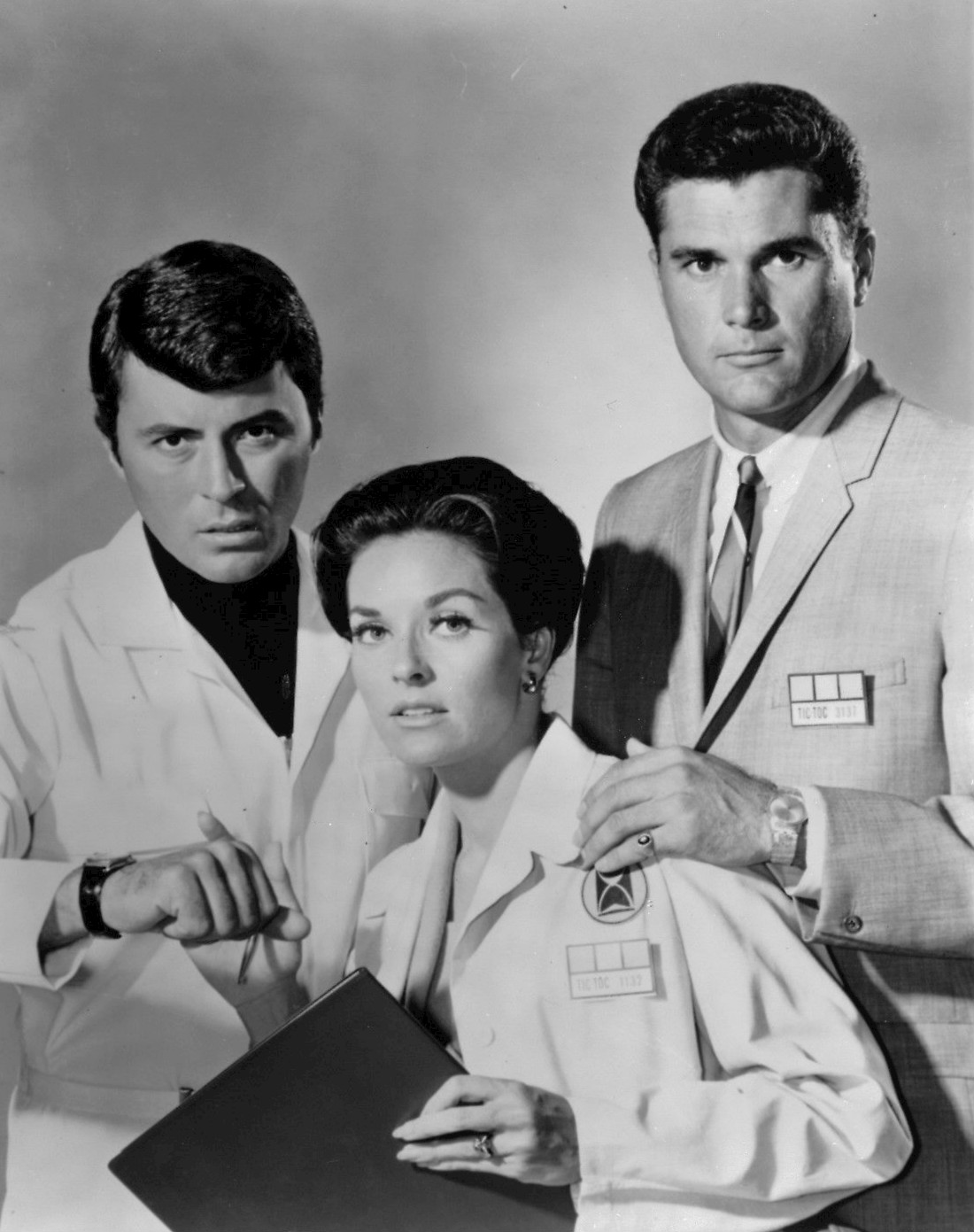 Photo of James Darren, Lee Meriwether and Robert Colbert from the television progam The Time Tunnel.